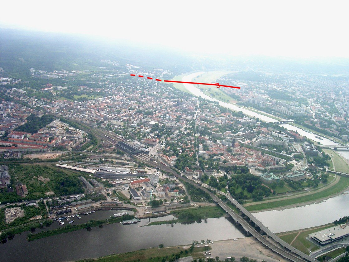 position of the projected Waldschlößchenbrücke in Dresden